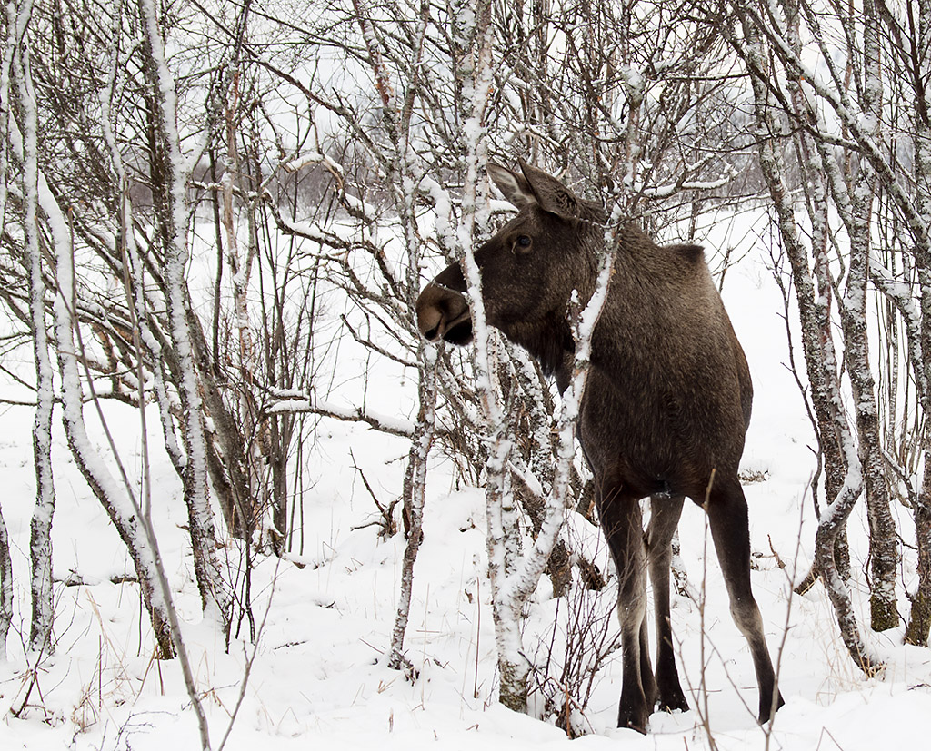 Alces alces alces, Myre, Nordland Fylke, Norway.